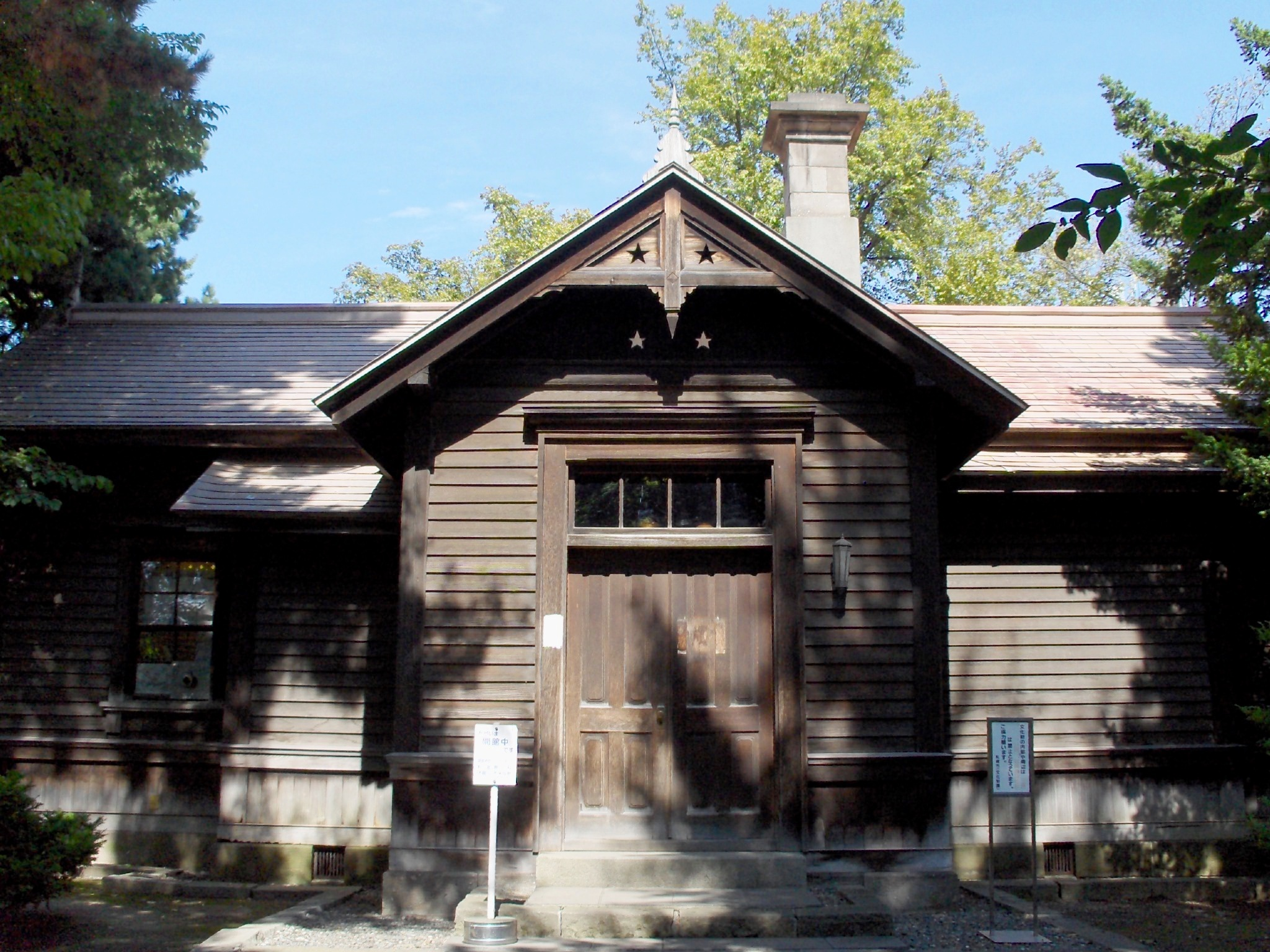 Seikatei, a historical guest house in Sapporo, Hokkaido, Japan.